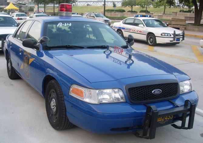 Photo of a blue police car